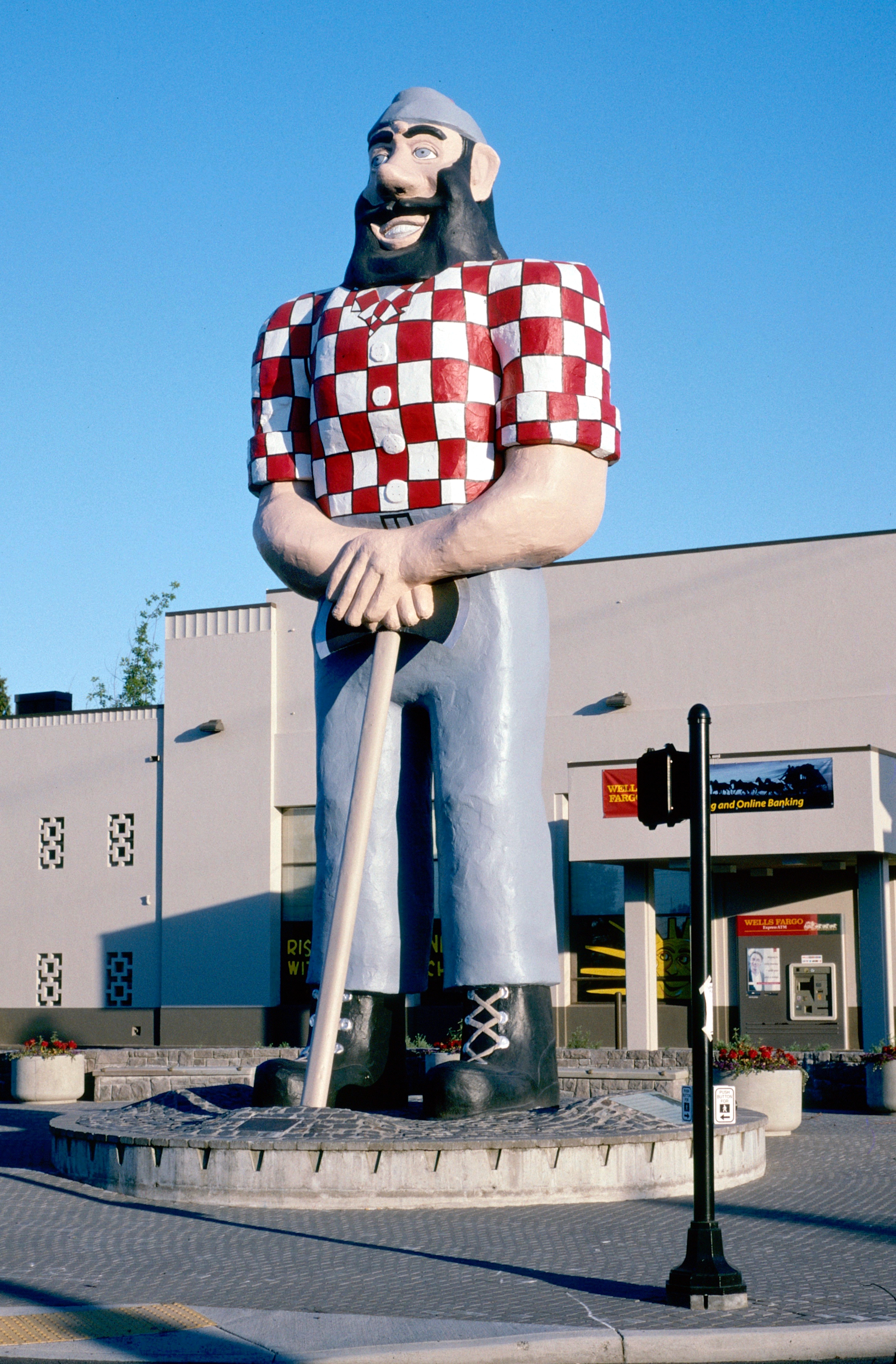 The Paul Bunyan Statue, in the Kenton District of Portland, Oregon, is listed on the National Register of Historic Places. It was built in 1959.